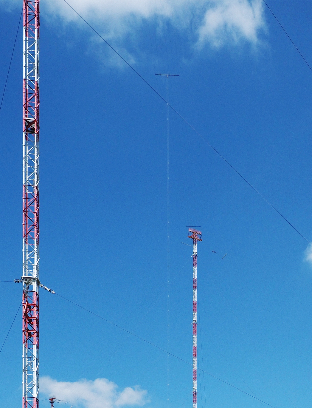 T antenna of Mainflingen longwave transmitter